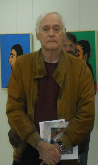 Miodrag Rogic, Painter and Graphic Artist was born in Belgrade in 1932.